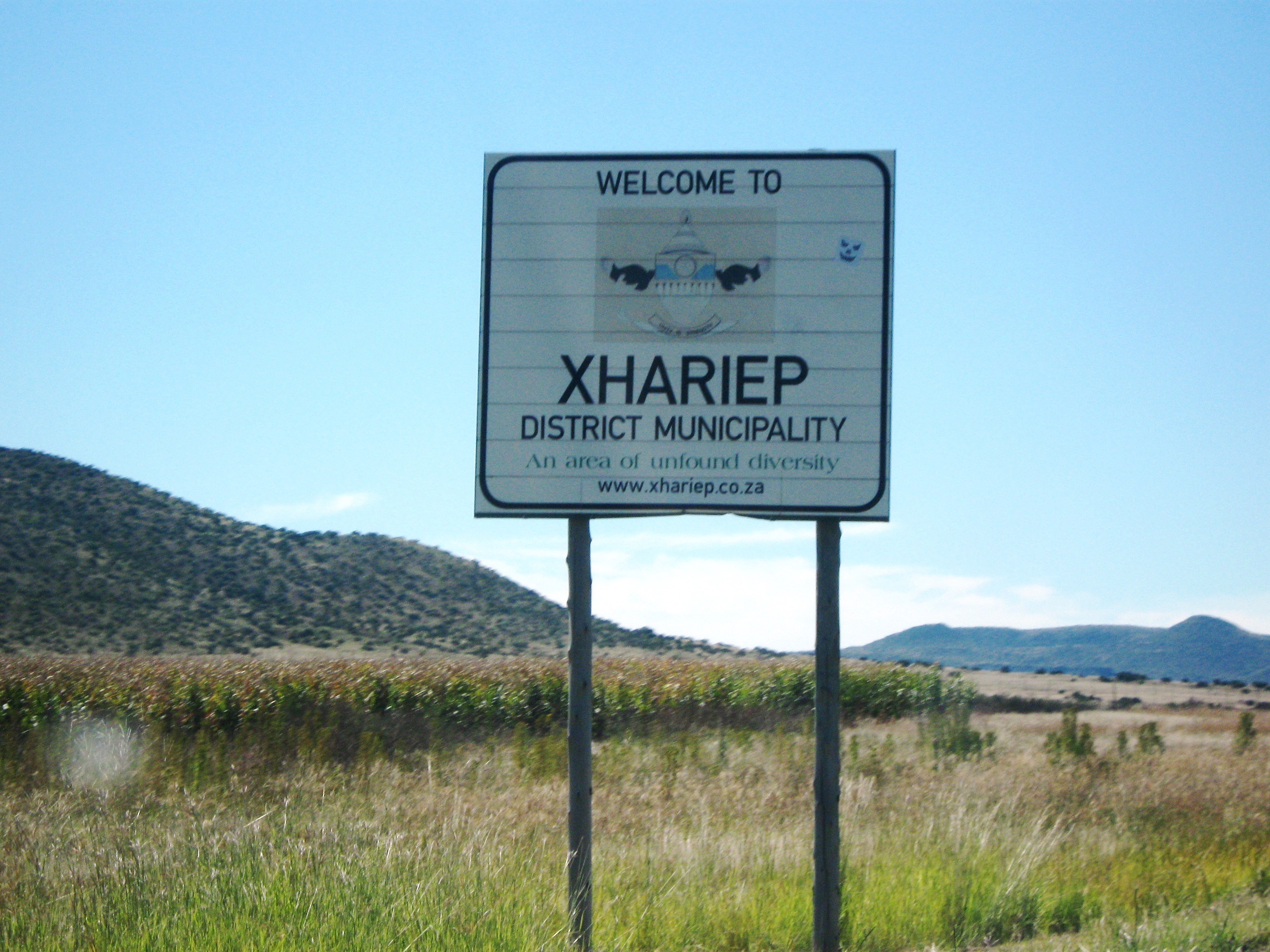 Welcoming sign when crossing the Orange River into the Free State, and therefore Xharipe District municipality